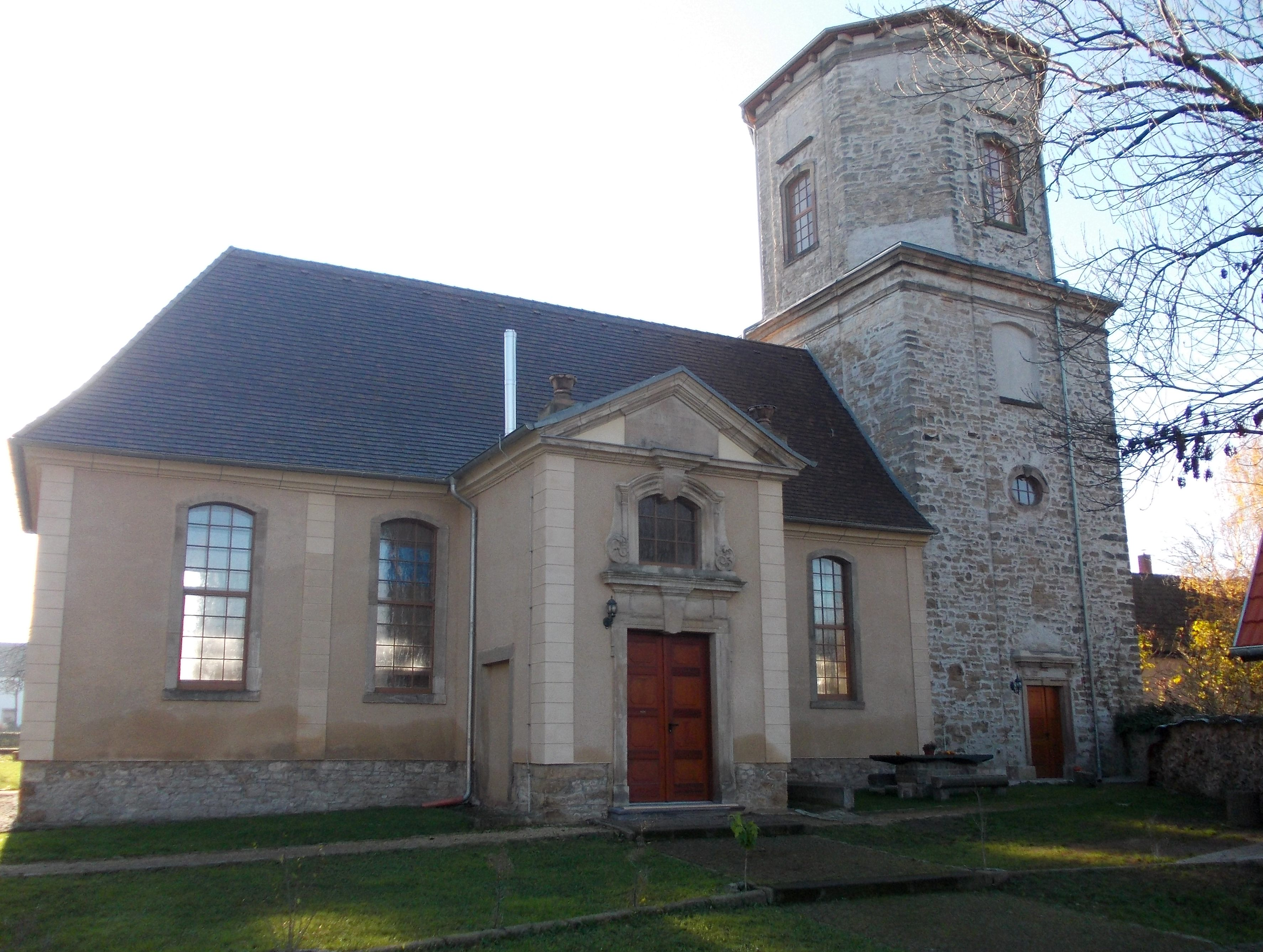 Oberbeuna church ("Hoppenhaupt Church"), Merseburg, district: Saalekreis, Saxony-Anhalt